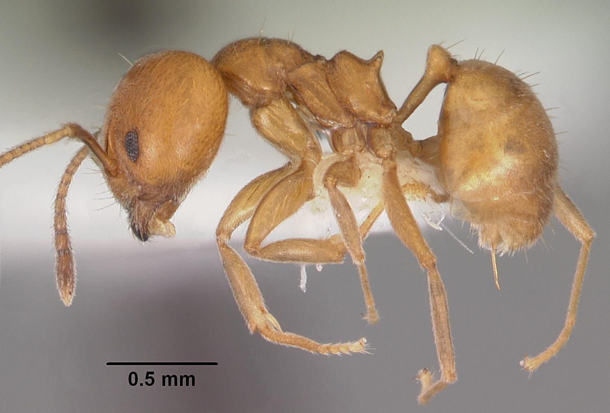 Profile view of ant Aneuretus simoni specimen casent0102369.